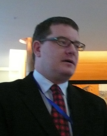 British, australian based, author and policy analyst Tom Bentley. Progressive Governance Conference, Chile 2009